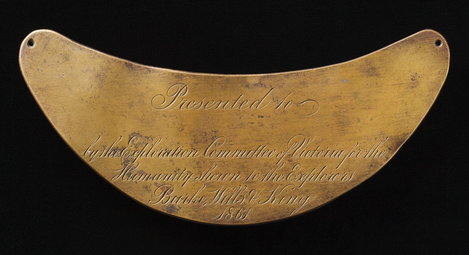 A brass-coloured, shallow crescent-shaped breastplate with a hole at each corner and text inscribed on the surface. In the National Historical Collection of the National Museum of Australia.